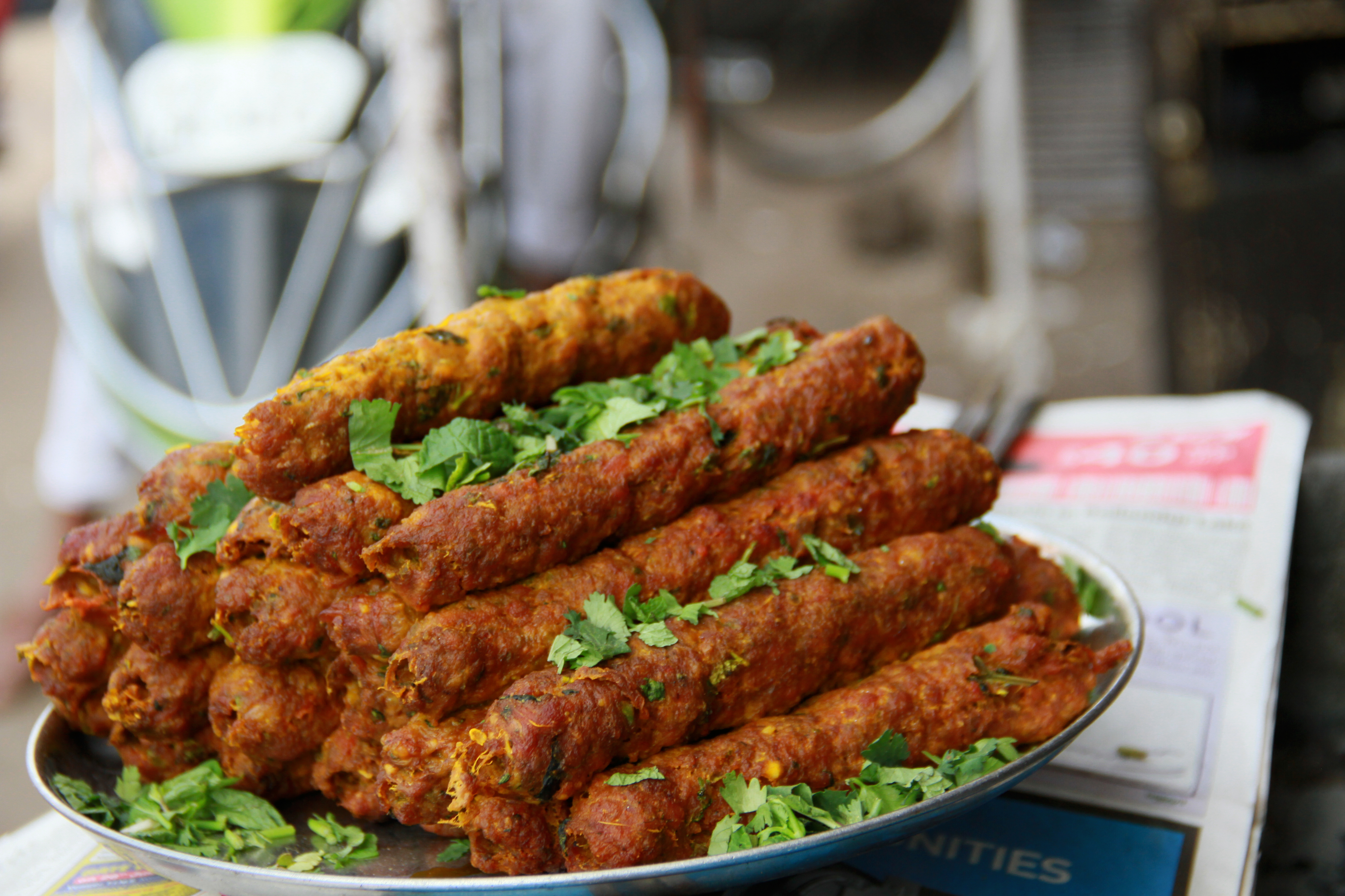 The Russell Market Chowk in Shivajinagar alone has more than twenty small road side stalls that offer a slew of food items that are irresistible during Ramadan.